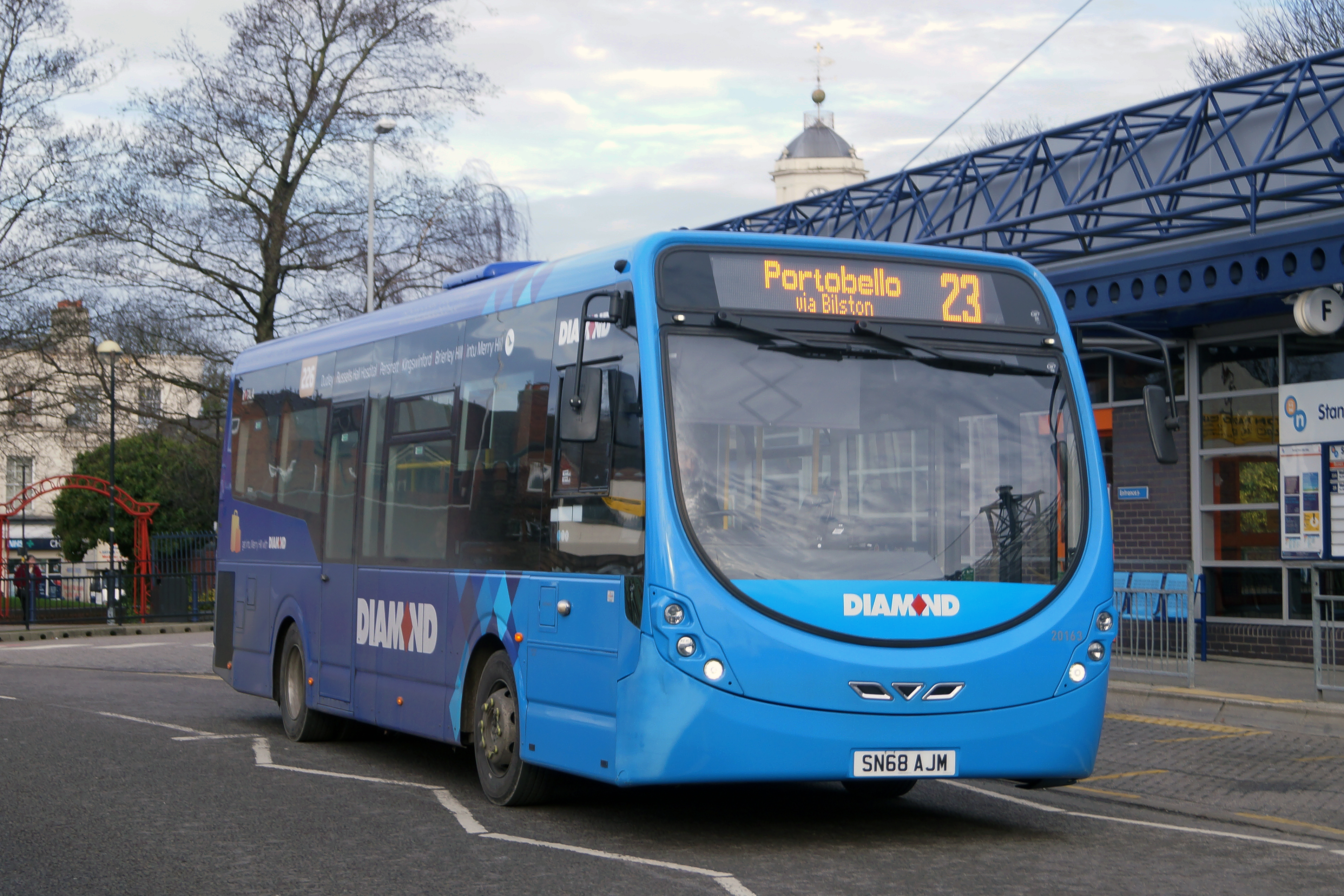 One of Diamond's Wright Streetlite buses leaves Bilston on a 23 to Portabello.